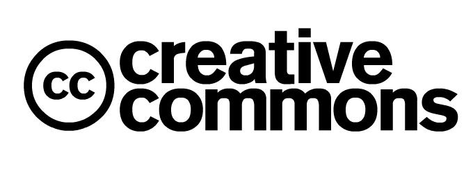 creative commons logo